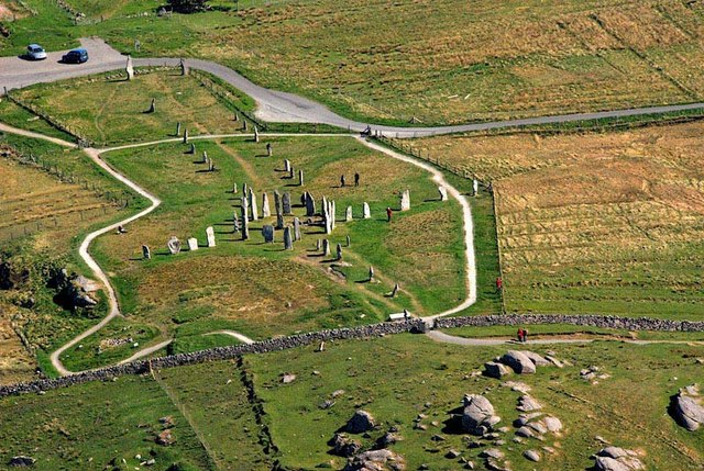 Calanais Stones Aerial view of the Calanais Stones, supposedly older than Stonehenge.